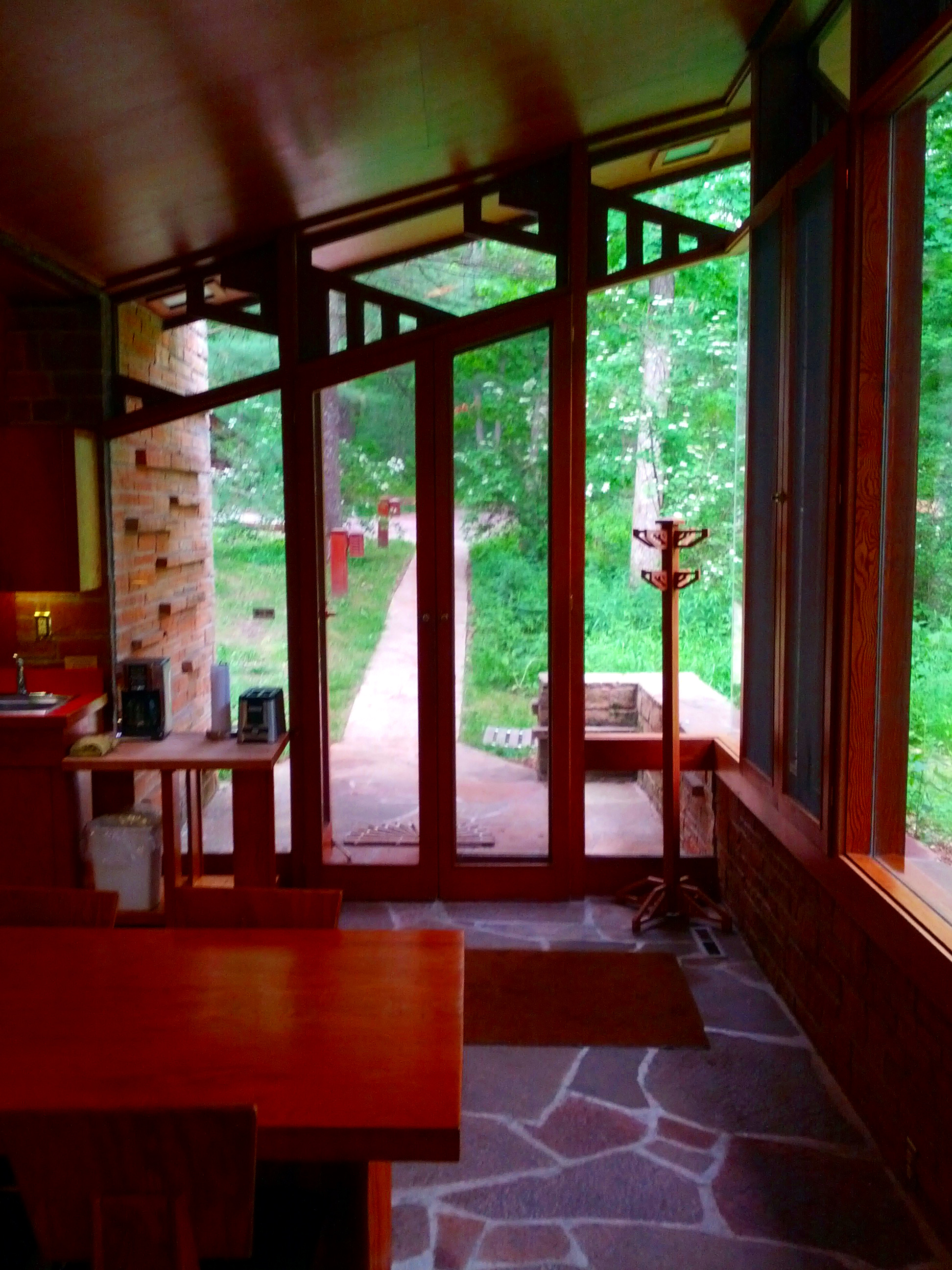 Interior of Seth Peterson Cottage, a Frank Lloyd Wright designed cottage in Mirror Lake State Park outside Lake Delton, Wisconsin.